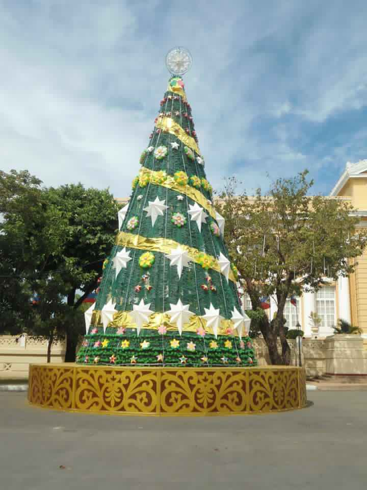 A Christmas Tree of Capitol, Lingayen, Pangasinan. In front of the Capitol Building.